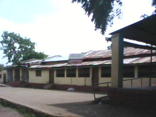 Z.P Urdu Middile School